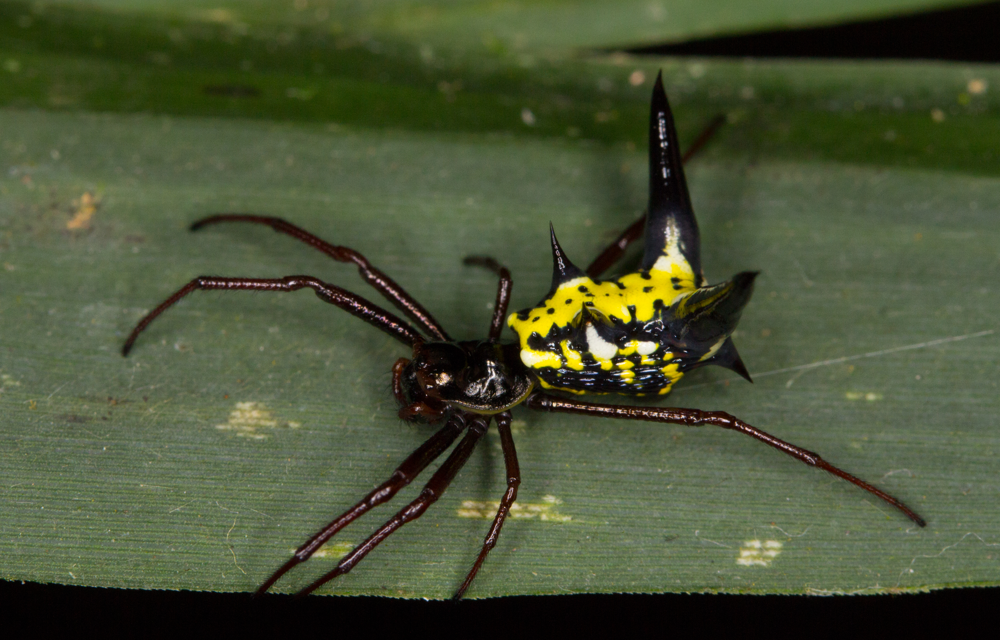 Spiny Orb Weaver